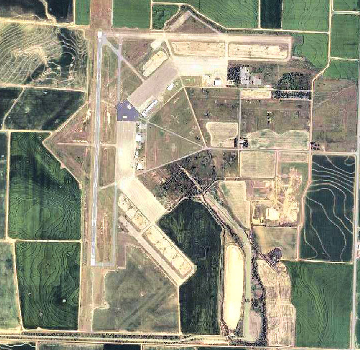 USGS digital orthophoto of Stuttgart Municipal Airport in Prairie County, Arkansas, United States